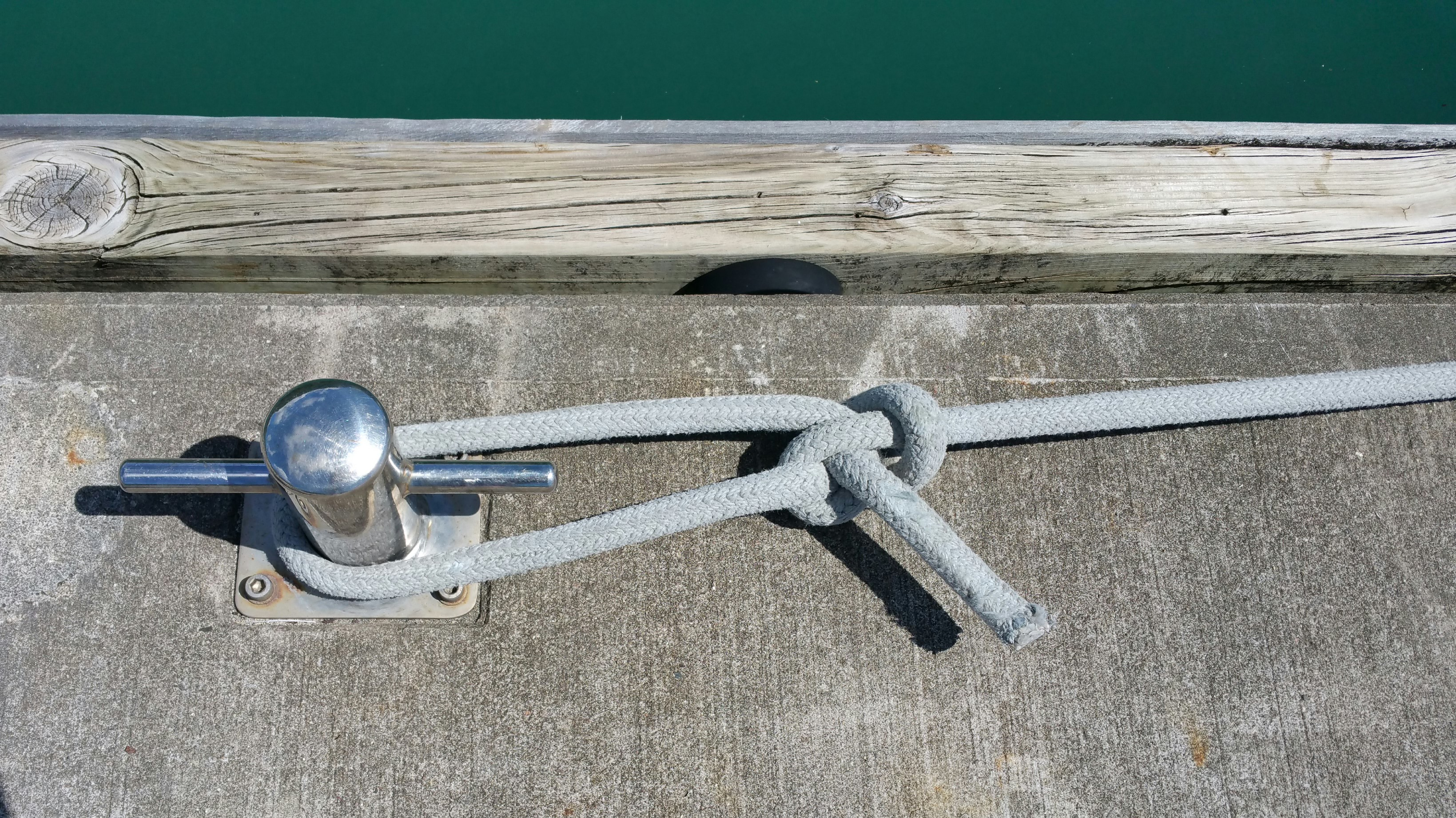 Bowline knot (other side). Left hand nipping loop, tail inside eye